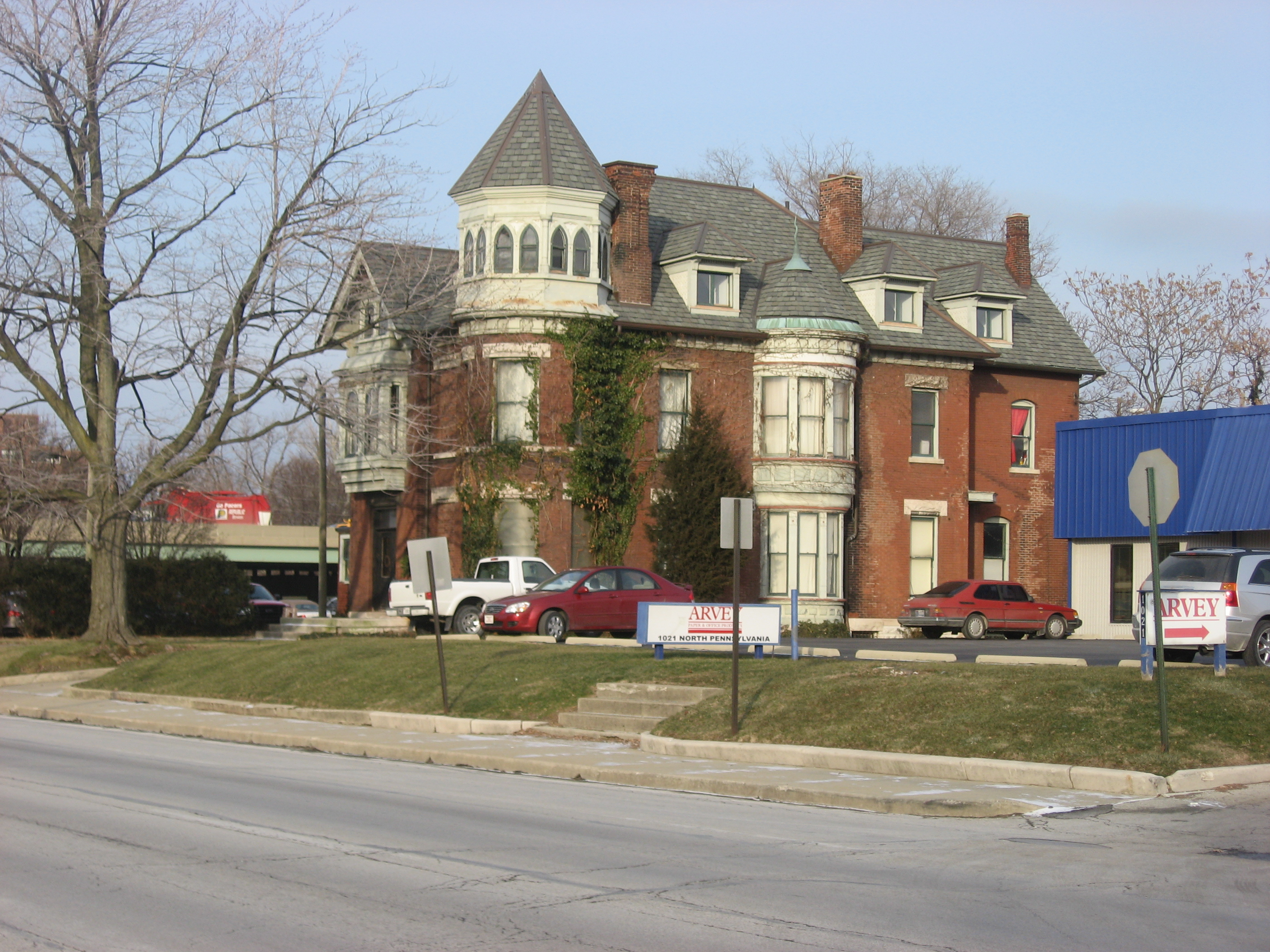 Front and southern side of the Calvin I. Fletcher House, located at 1031 N. Pennsylvania Street in Indianapolis, Indiana, United States. Built in 1895, it is listed on the National Register of Historic Places.